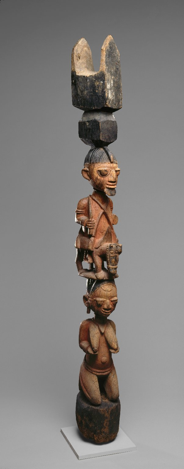 Carved wood figurative house post painted red-brown, and composed of a horse and rider at the top. The bearded rider holds the handle of a flywhisk in his right hand. The whisk rests on his right shoulder. His coiffure is painted blue. He wears arm rings and bracelets, a tasseled baldric and is seated on a saddle with stirrups. The horse has a bridle. The equestrian figure rests on a small platform. Under him is a figure of a kneeling woman with hands supporting breasts. She wears ear plugs, bracelets, an amulet necklace, and girdle. Her coiffure is painted blue. Condition: Good. Evidence of wear and erosion from age visible throughout. Rider's left forearm is missing.